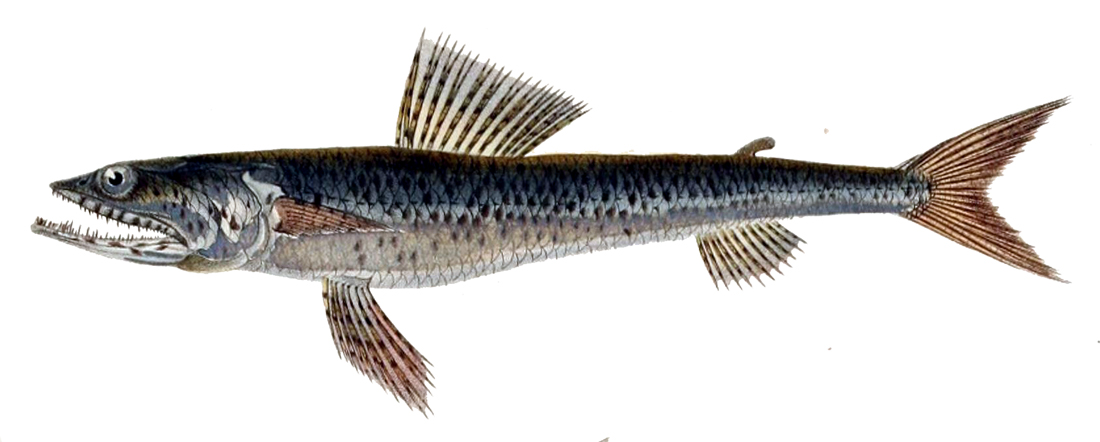 « Saurus meleagrides » = Synodus synodus